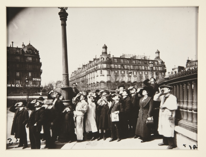 "Pendant l'Eclipse - 1912," gold chloride-toned print, by the French photographer Eugène Atget. 6 3/4 in. x 8 15/16 in. Yale University Art Gallery, gift of Russell Lynes, B.A. 1932. Courtesy of Yale University, New Haven, Conn.